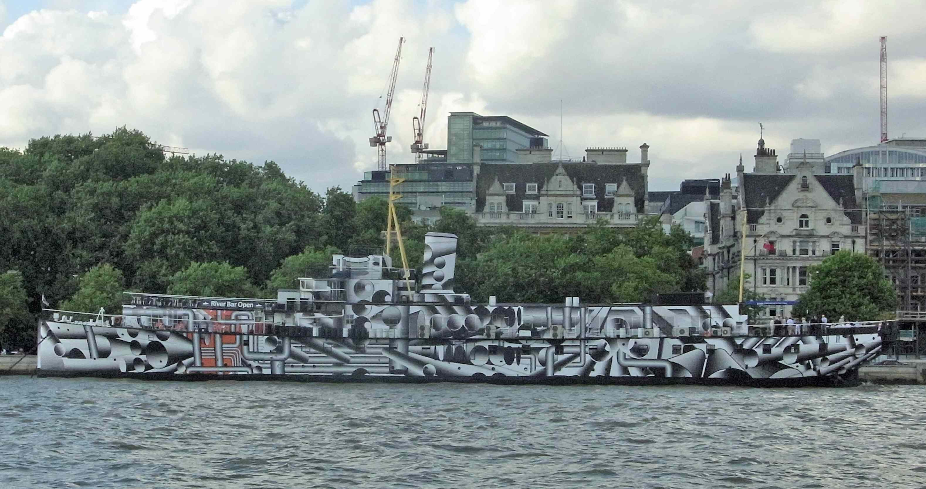 "Dazzle Ship London" by Tobias Rehberger. HMS President as part of the 14-18 NOW,WW1 Centenary Art Commissions in Dazzle camouflage